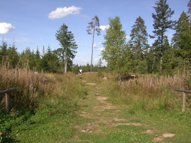 Forrest Stöcklewald